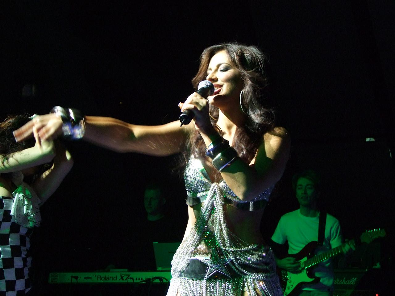 Ani Lorak from Ukraine performing at an ESC party in Belgrade, Serbia, May, 2008.